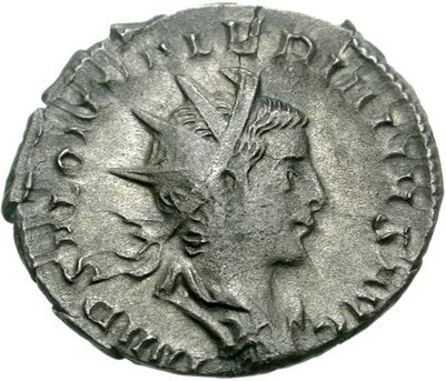 Saloninus. AD 260. AR Antoninianus (3.01 g, 6h). Colonia Agrippinensis (Cologne) mint. 2nd emission. IMP SALON VALERIANVS AVG, radiate and draped bust right / SPES PVBLICA, Spes advancing left, lifting dress with left hand and holding flower in right. RIC V 14; MIR 36, 917f; RSC 94.